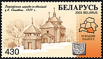 St. George's church with a bell tower in the village Sinkevichi. 1724